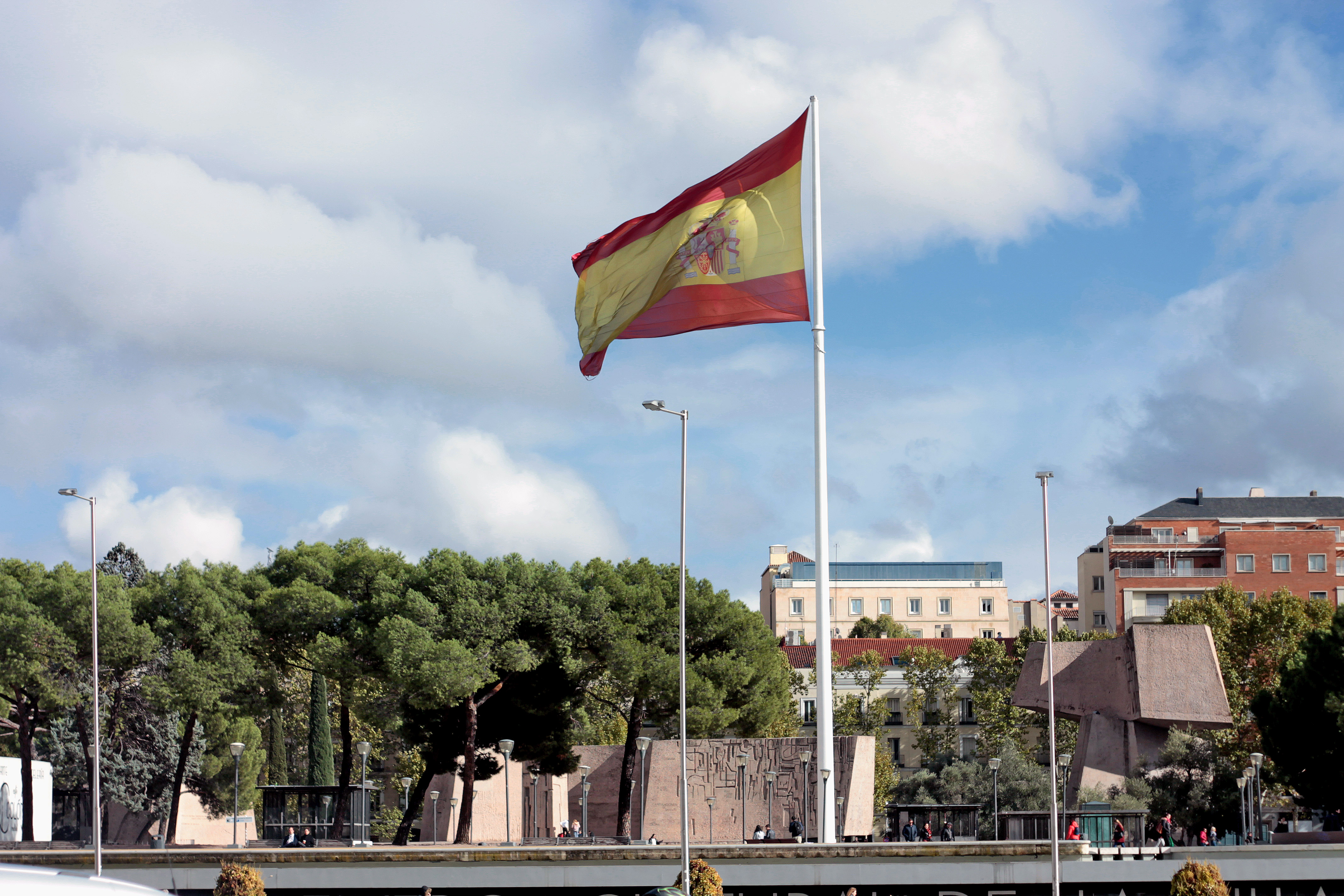 View of Plaza de Colón ("Columbus Square") in Madrid (Spain).